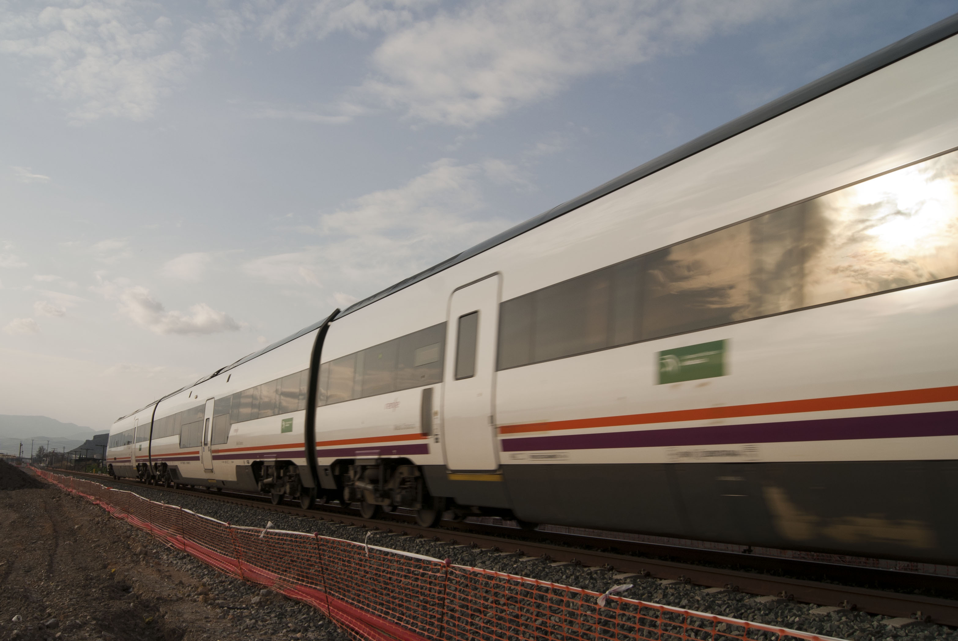 Renfe S599 train in a Media Distancia service between Grenade and Algeciras, just after departing Grenade.